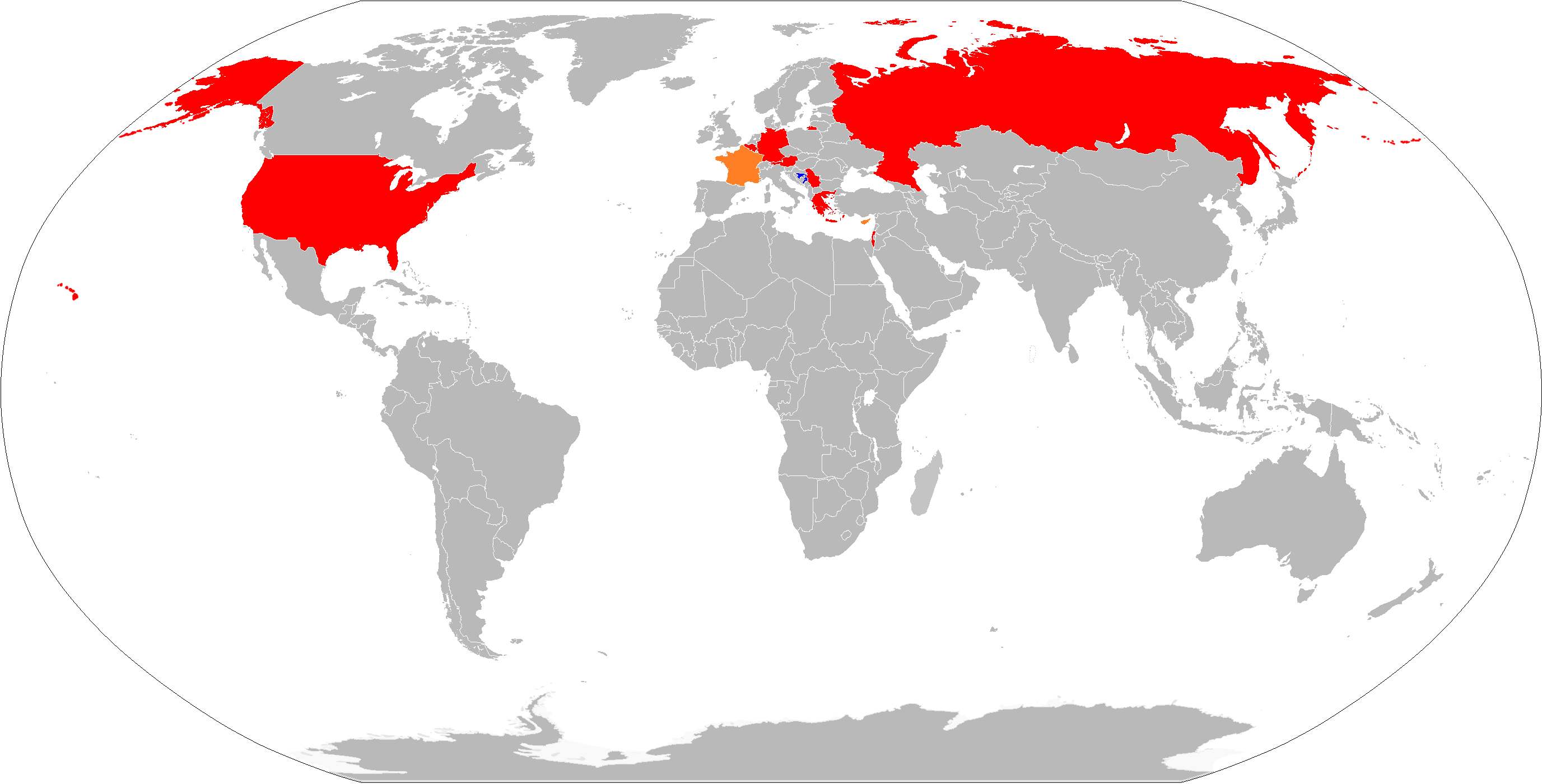 Representative offices of Republika Srpska in world Belgrade (Serbia) (red color) Jerusalem (Israel) (red color) Moscow (Russia) (red color) Brussels (Belgium) (red color) Stuttgart (Germany) (red color) Vienna (Austria) (red color) Republika Srpska (blue color)